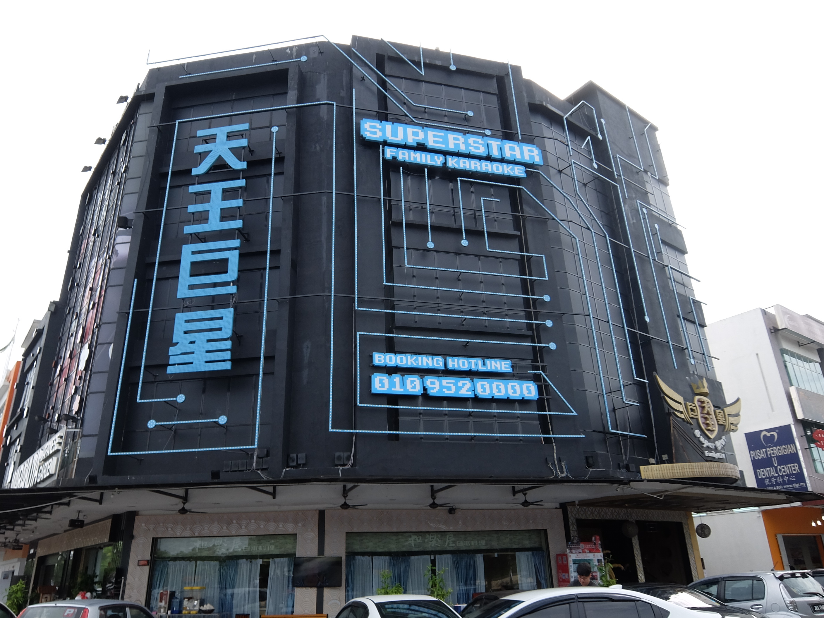 Superstar Family Karaoke, Mount Austin, Johor Bahru, Johor, Malaysia